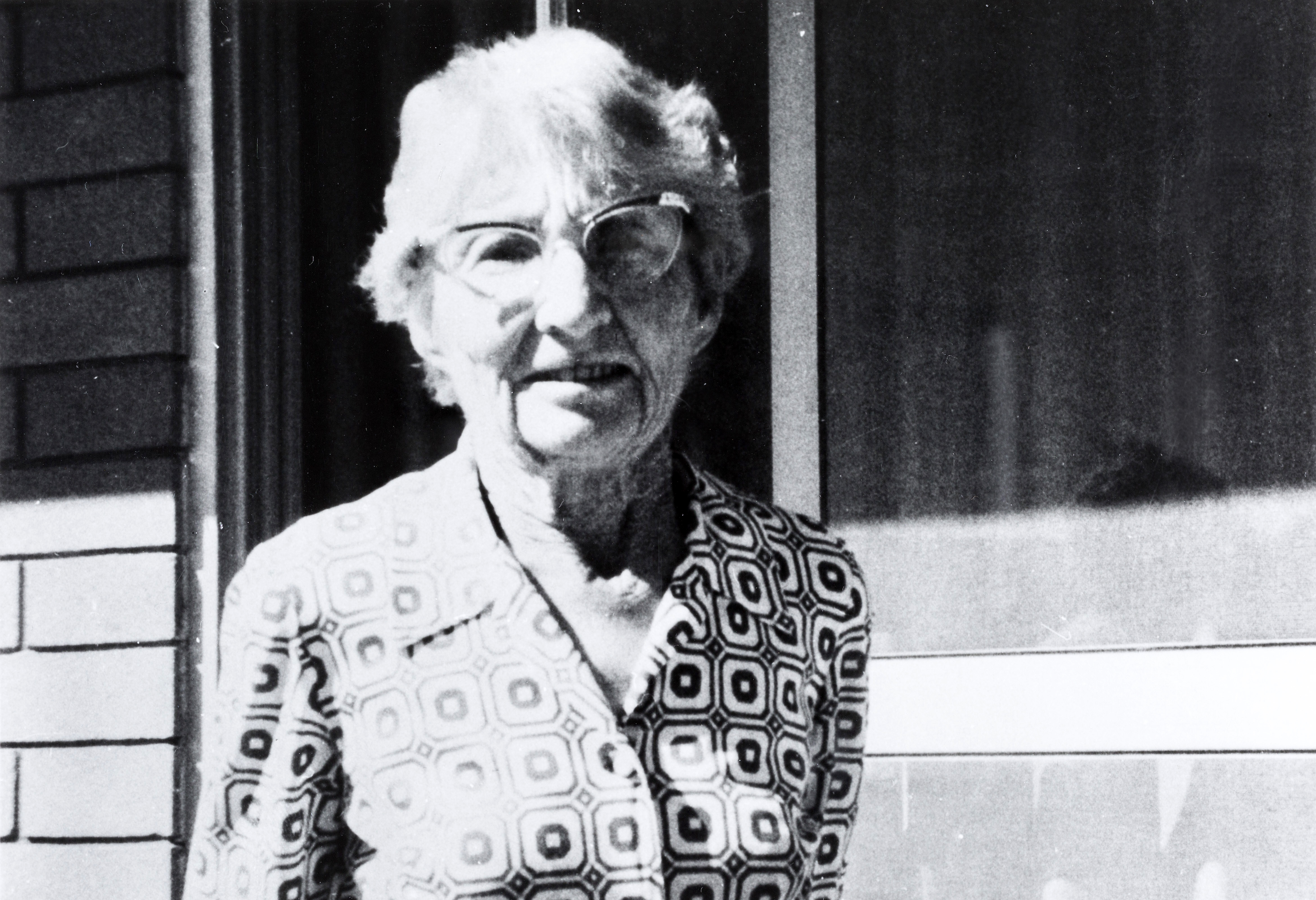 Doreen Braitling, possibly at Mount Doreen Station - PH0333-0024